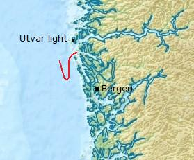 Route of the Allied and German ships involved in the Action of 28 January 1945.